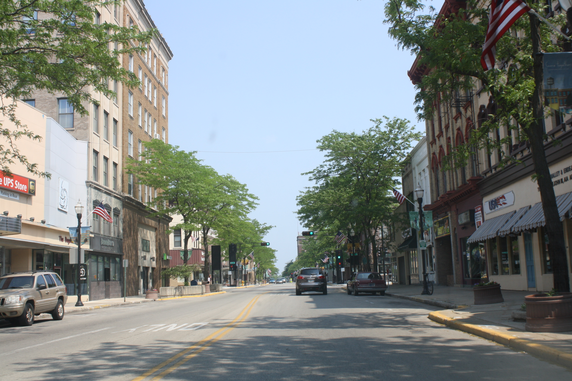 The South Main Street Historic District on Main Street, Fond du Lac, Wisconsin along U.S. Route 45, listed on the National Register of Historic Places.